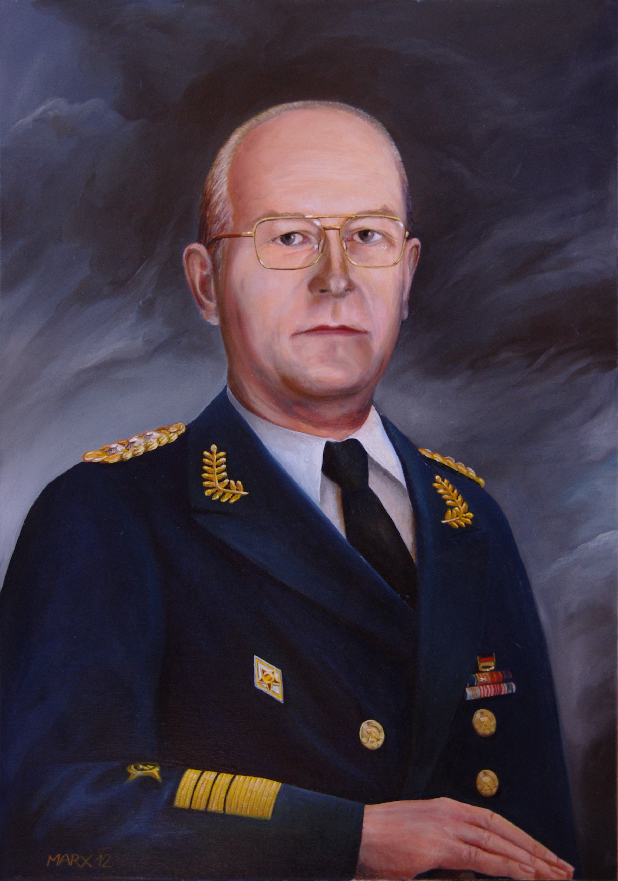 Admiral (OF8) Theodor Hoffmann, the last Minister of National Defense of the German Democratic Republic and Commander in Chief (head/chief) of the National People's Army (painding by Eberhard Marx).